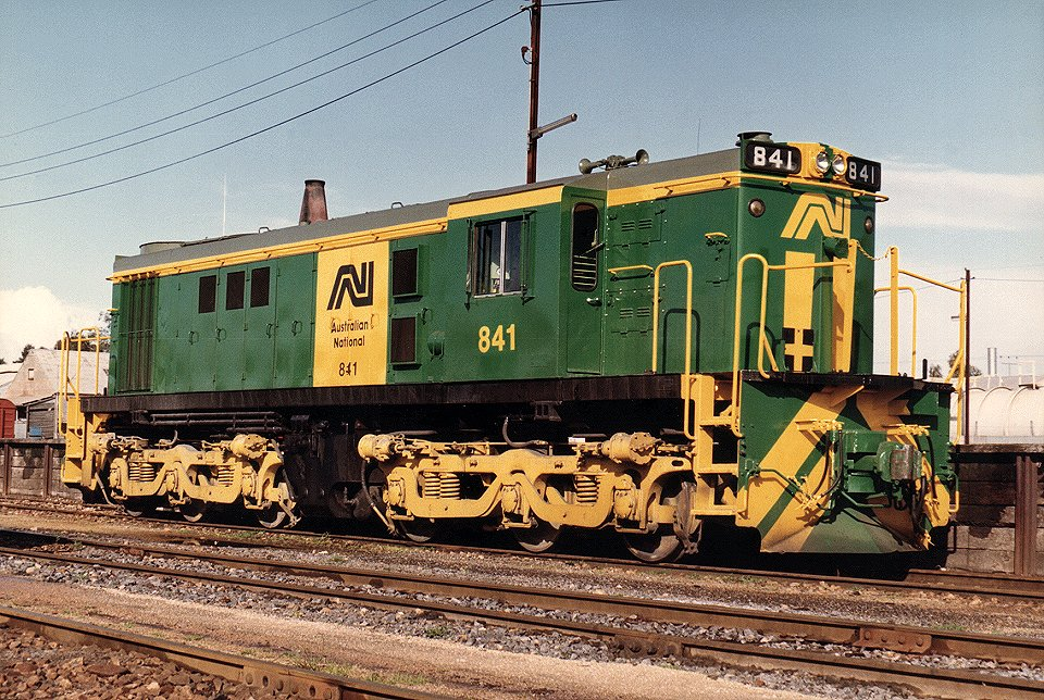 830 (No.841) class on goods shed platform at Mt Gambier (South Australia), 1983.